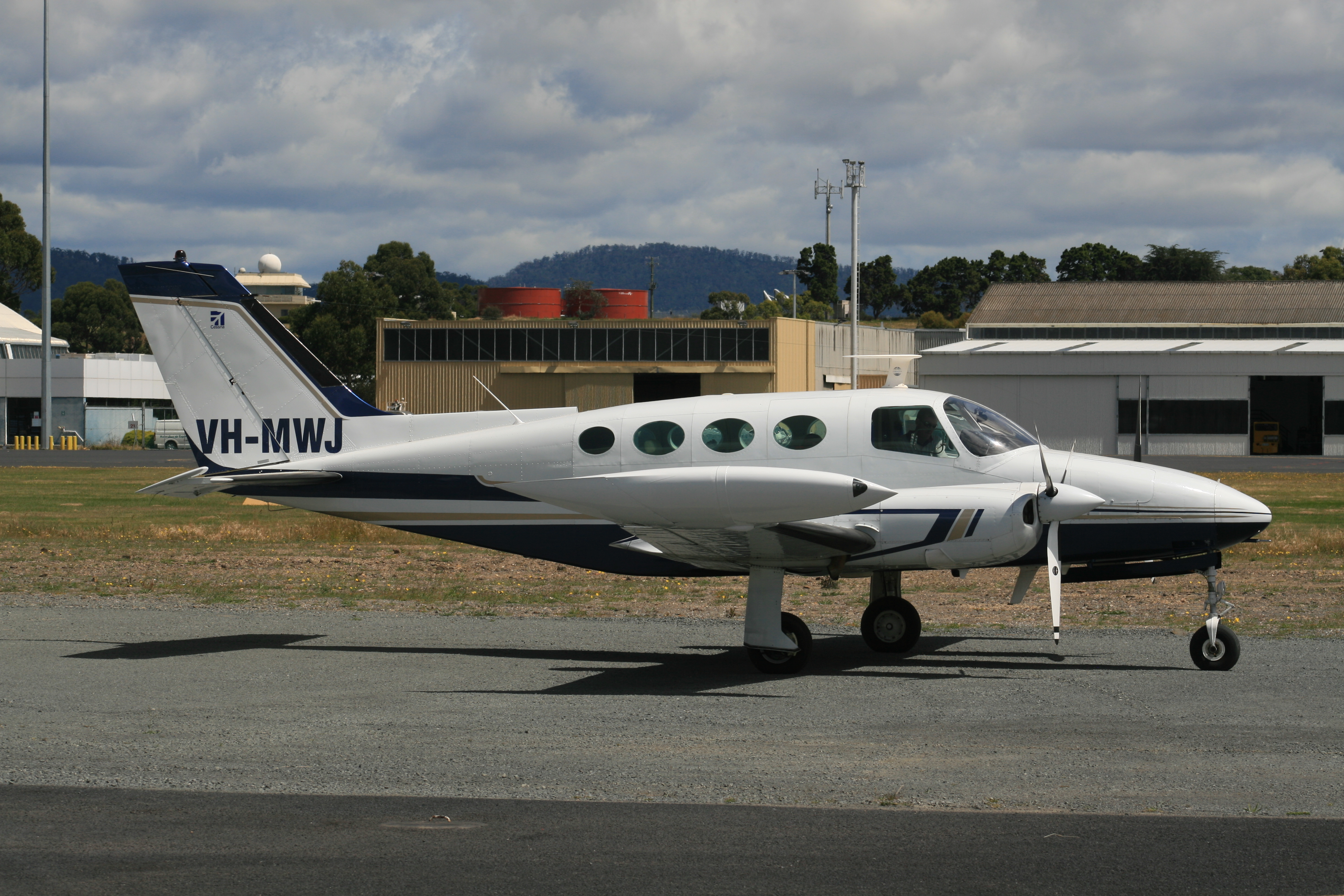 A Cessna 411A at Hobart Airport in Australia. Digital photo of VH-MWJ.